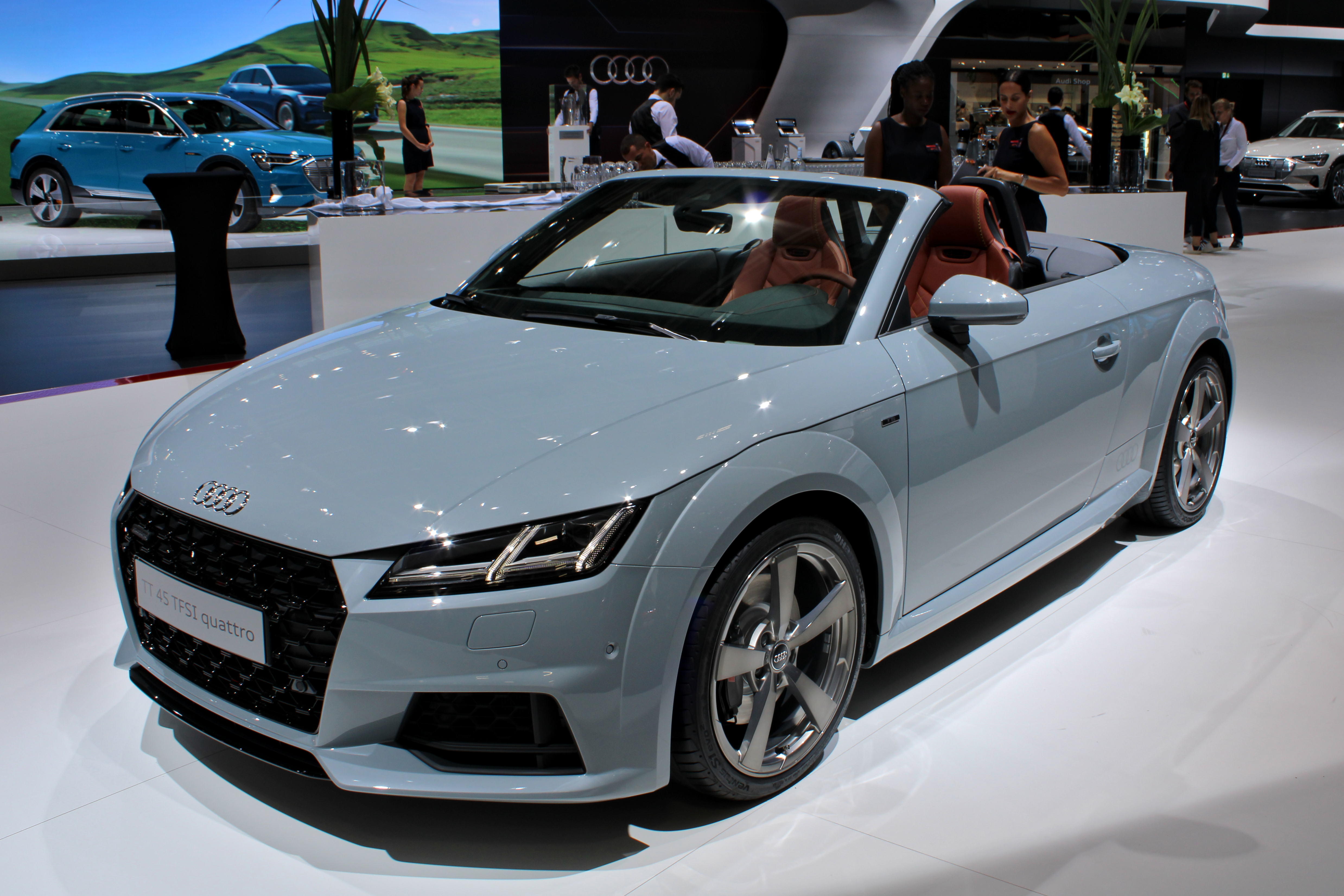 Audi TT Roadster 45 TFSI quattro at Paris Motor Show 2018